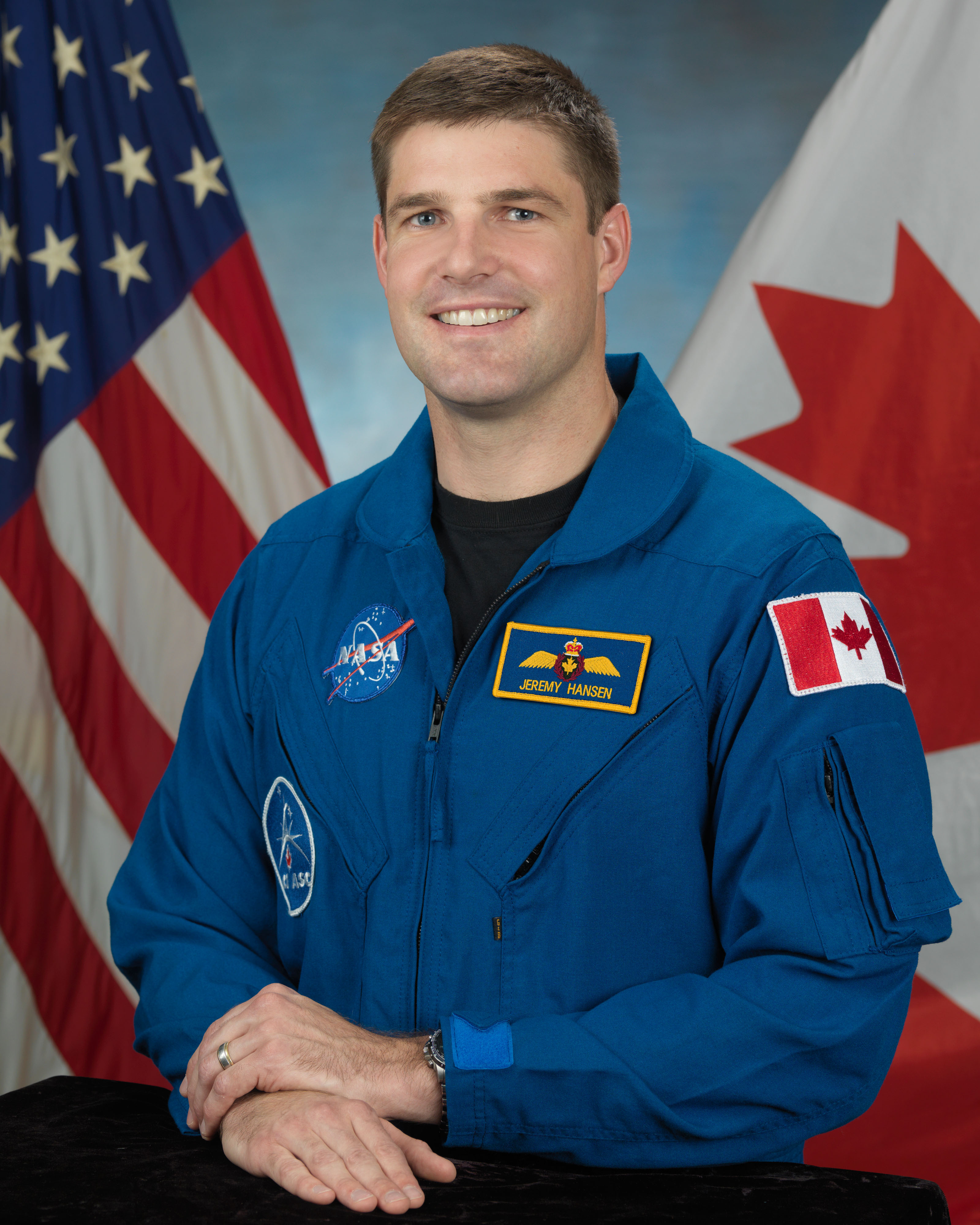 Jeremy Hansen, Canadian Space Agency astronaut candidate class of 2009